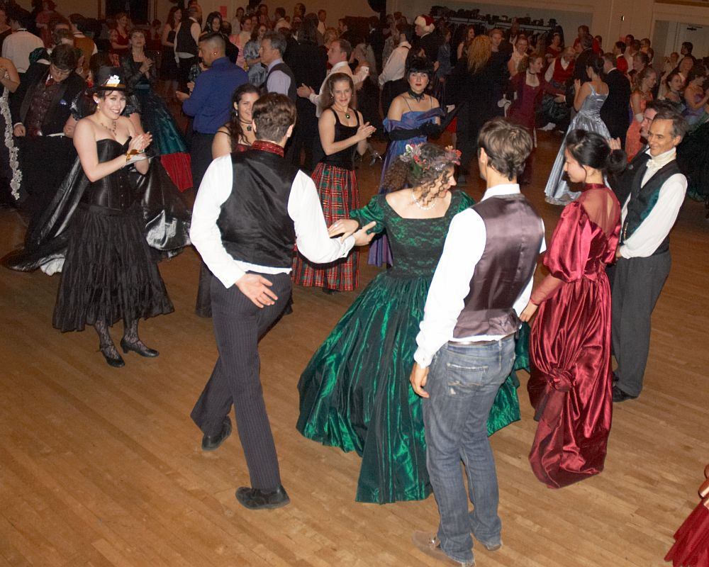 Photograph of dancers at The Gaskell Ball, dancing Strip The Willow